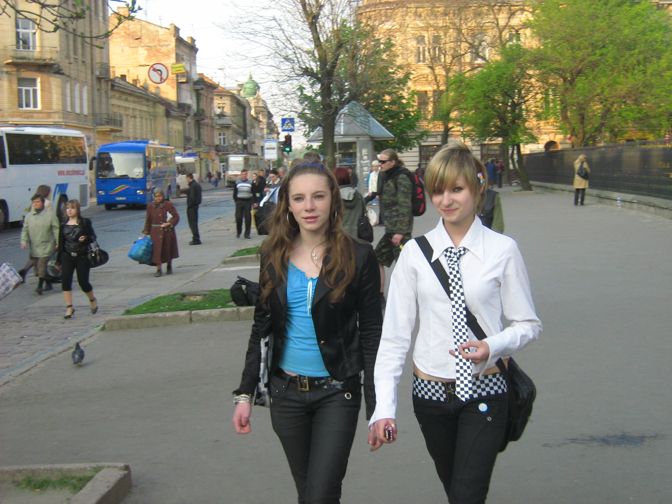 Young women in Ukraina